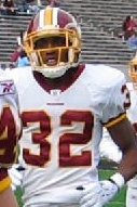 Defensive back Ade Jimoh (en) of the Washington Redskins